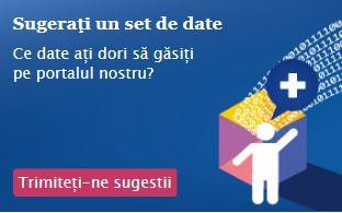 Screenshot from EUODP